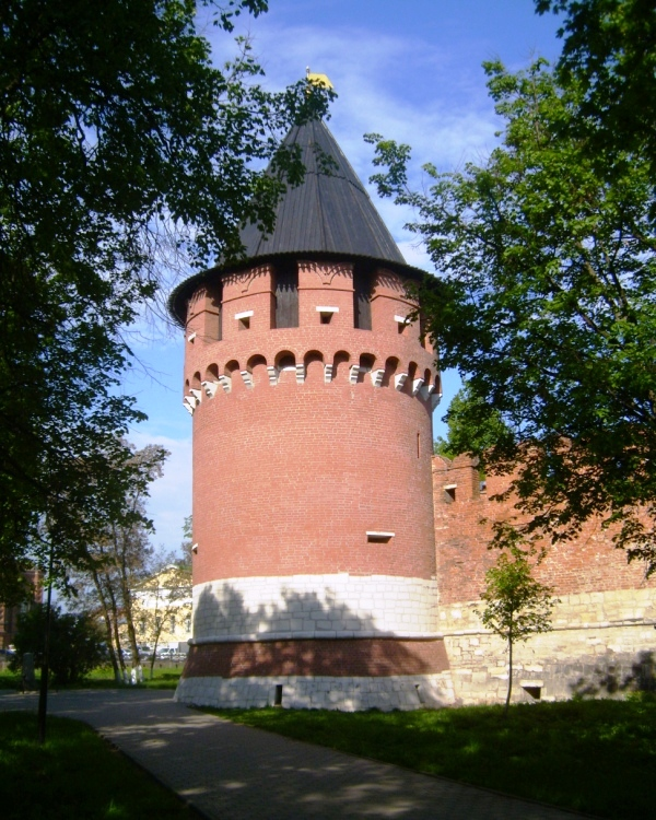 Nikitskaya tower Tula Kremlin